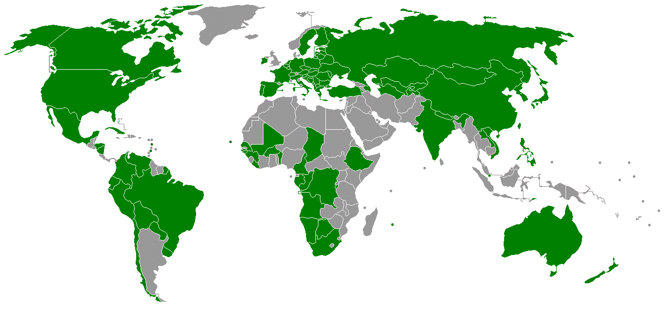 A map of secular states. Green indicates a secular state.